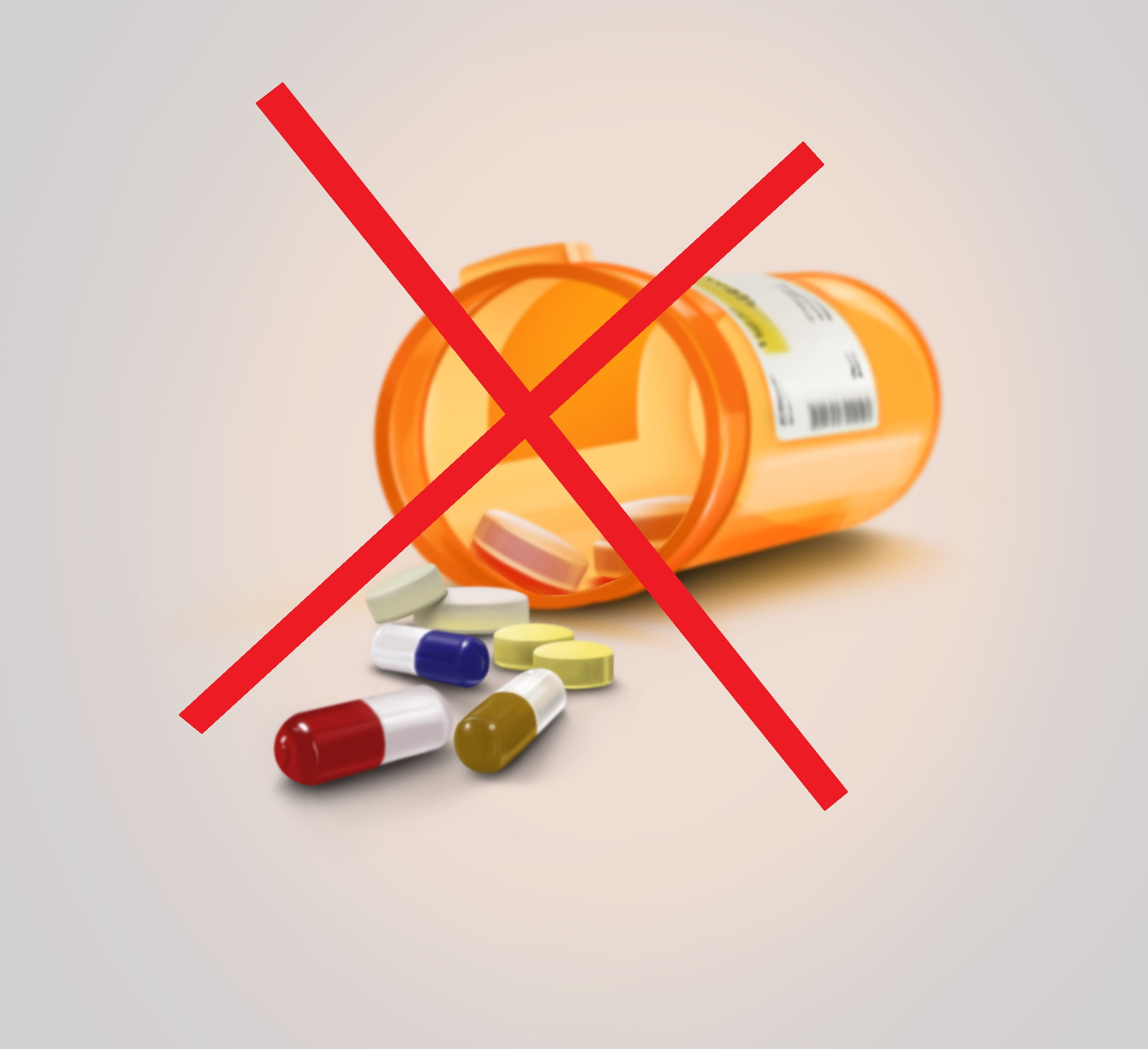 Pill bottle spilled over and X